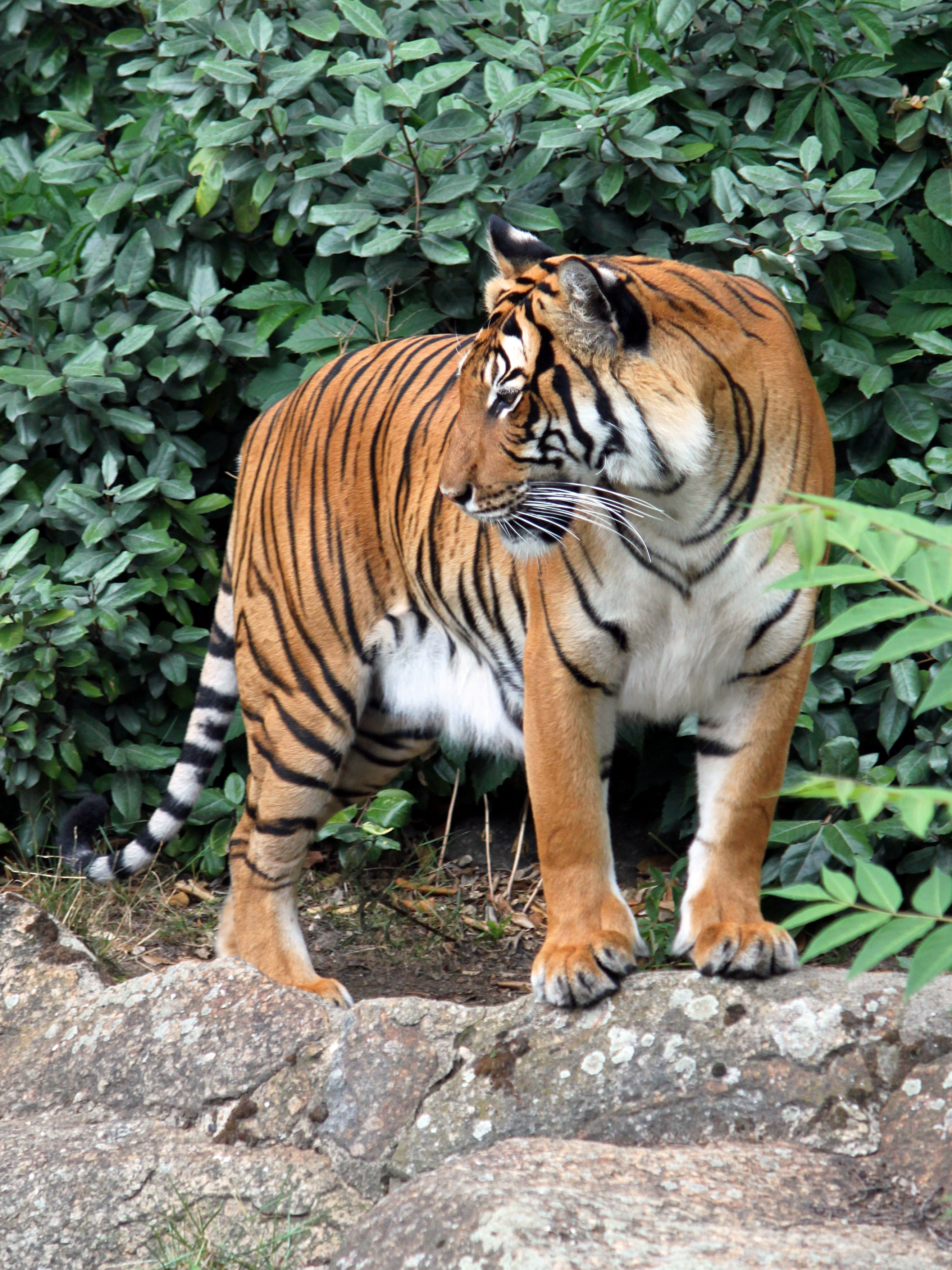 Zoological Garden Berlin, Germany.